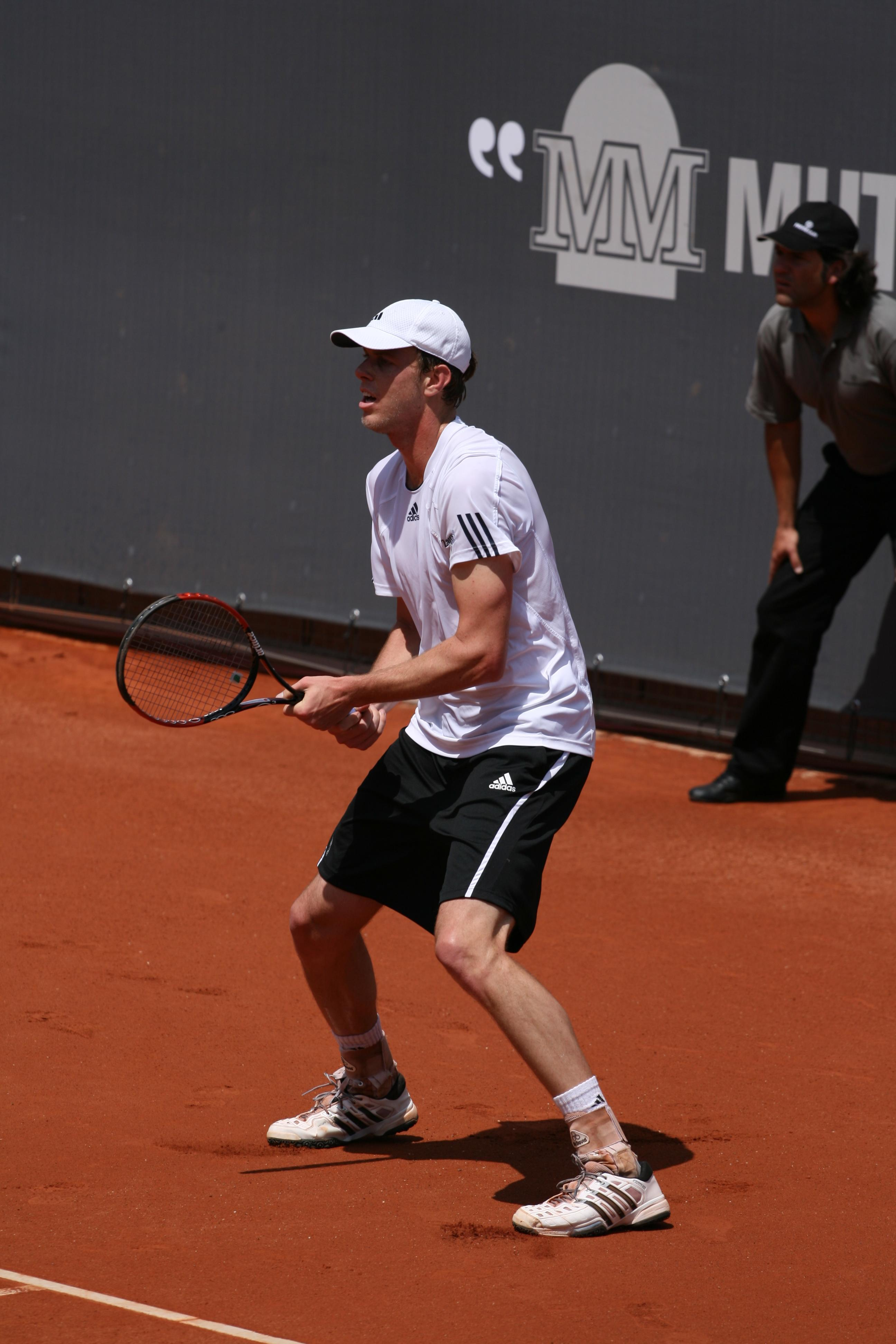 Waiting to return Seppi's serve in Madrid